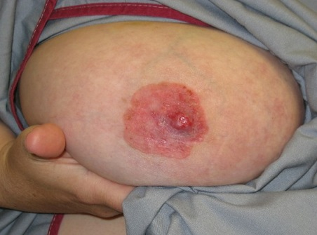 Scaly, erythematous, crusty, and thickened plaque on the nipple of Paget Disease of the Breast.